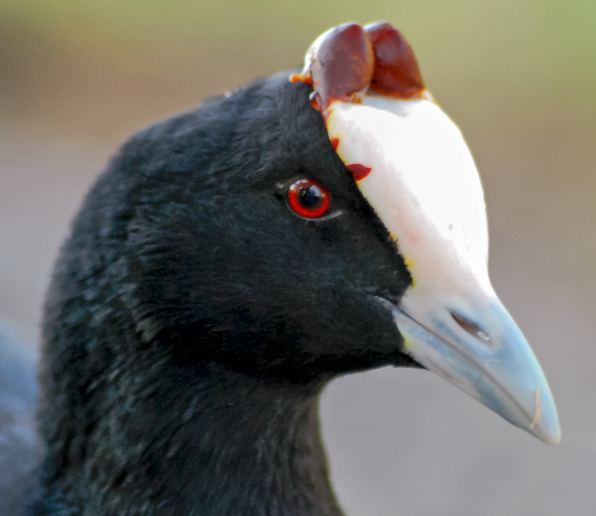 An adult Red-knobbed Coot in Cape Town, South Africa.